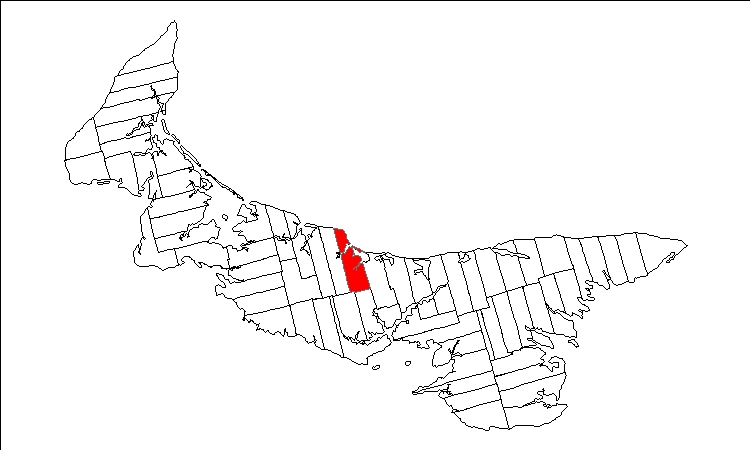 Public domain map of Prince Edward Island created by User:Plasma east with data courtesy of Geogratis, modified to show townships. Released under GFDL (self).